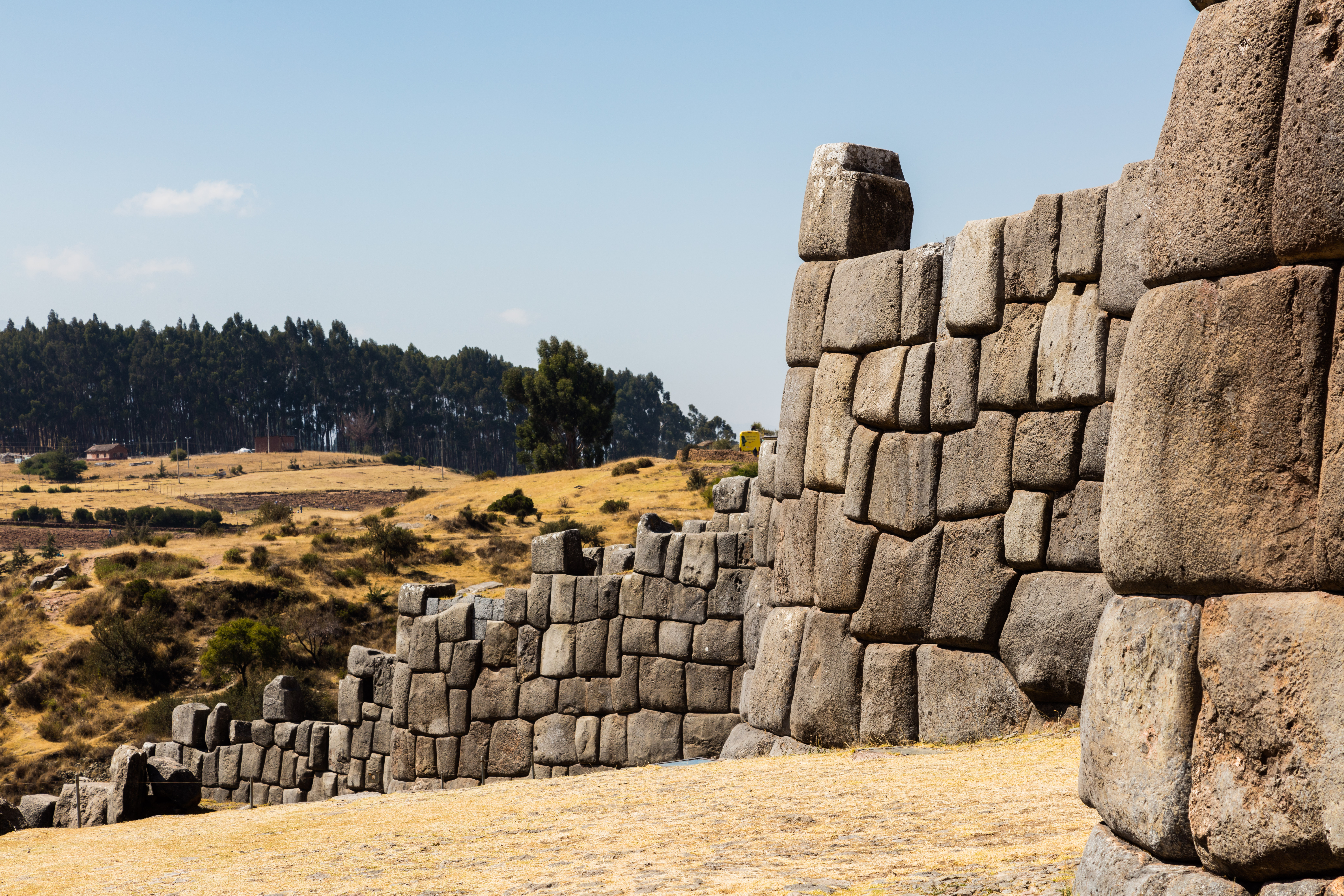 Sacsayhuamán, Cusco, Peru